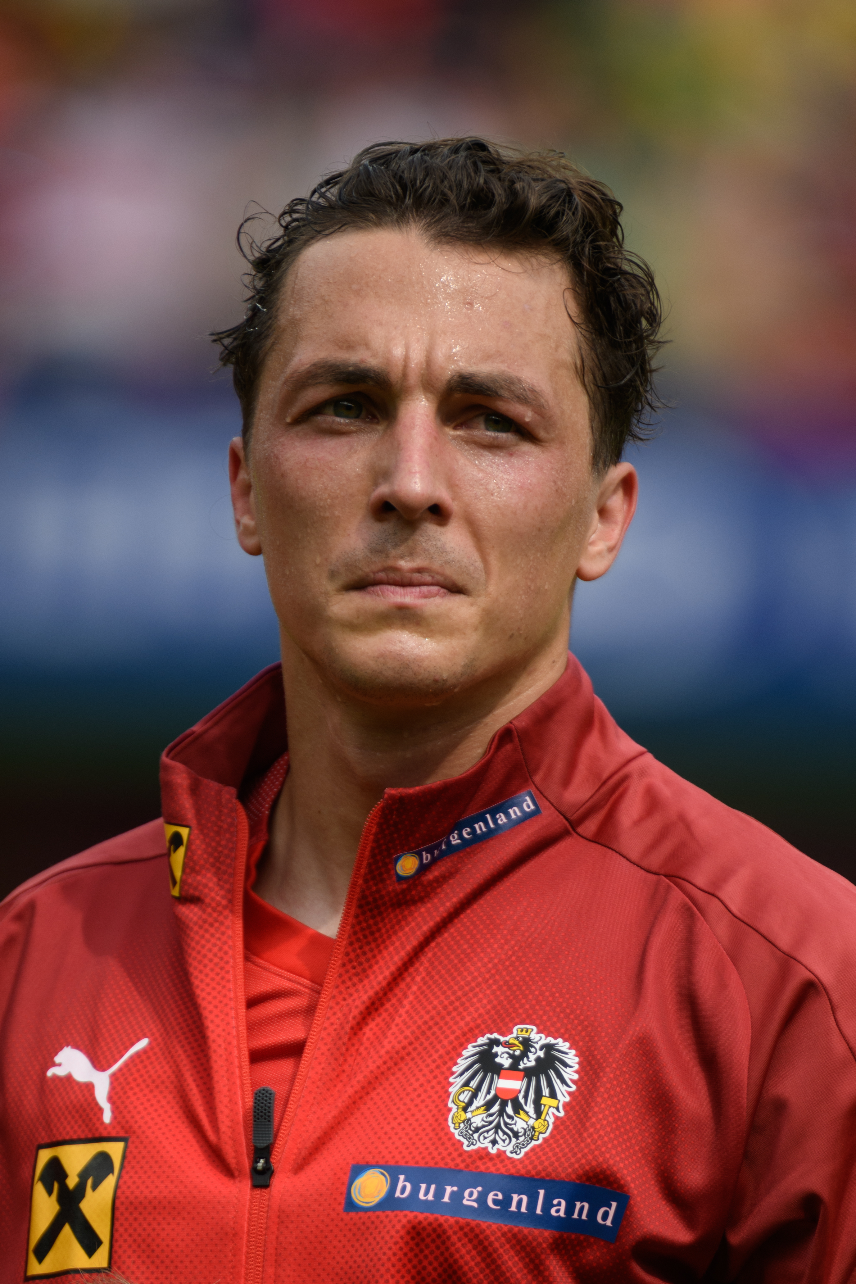 FIFA Friendly Match Austria vs. Brazil 2018/06/10 in Vienna/Ernst-Happel-Stadium. Picture shows Julian Baumgartlinger (AUT)